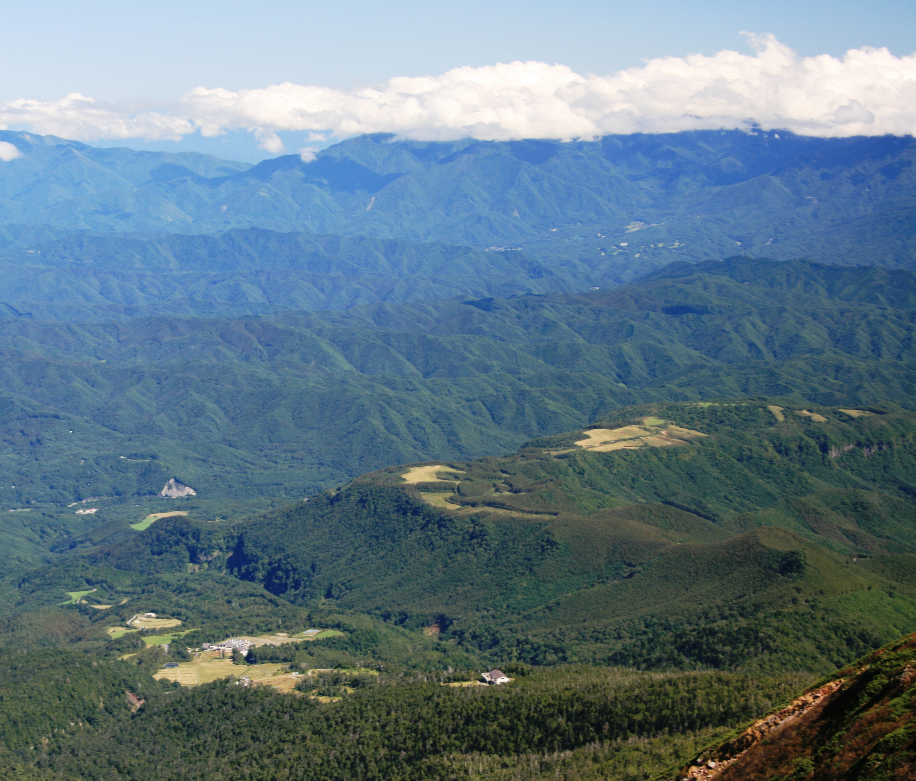 Kuragoekogen on Mount Ontake, Kiso, Nagano, Japan.